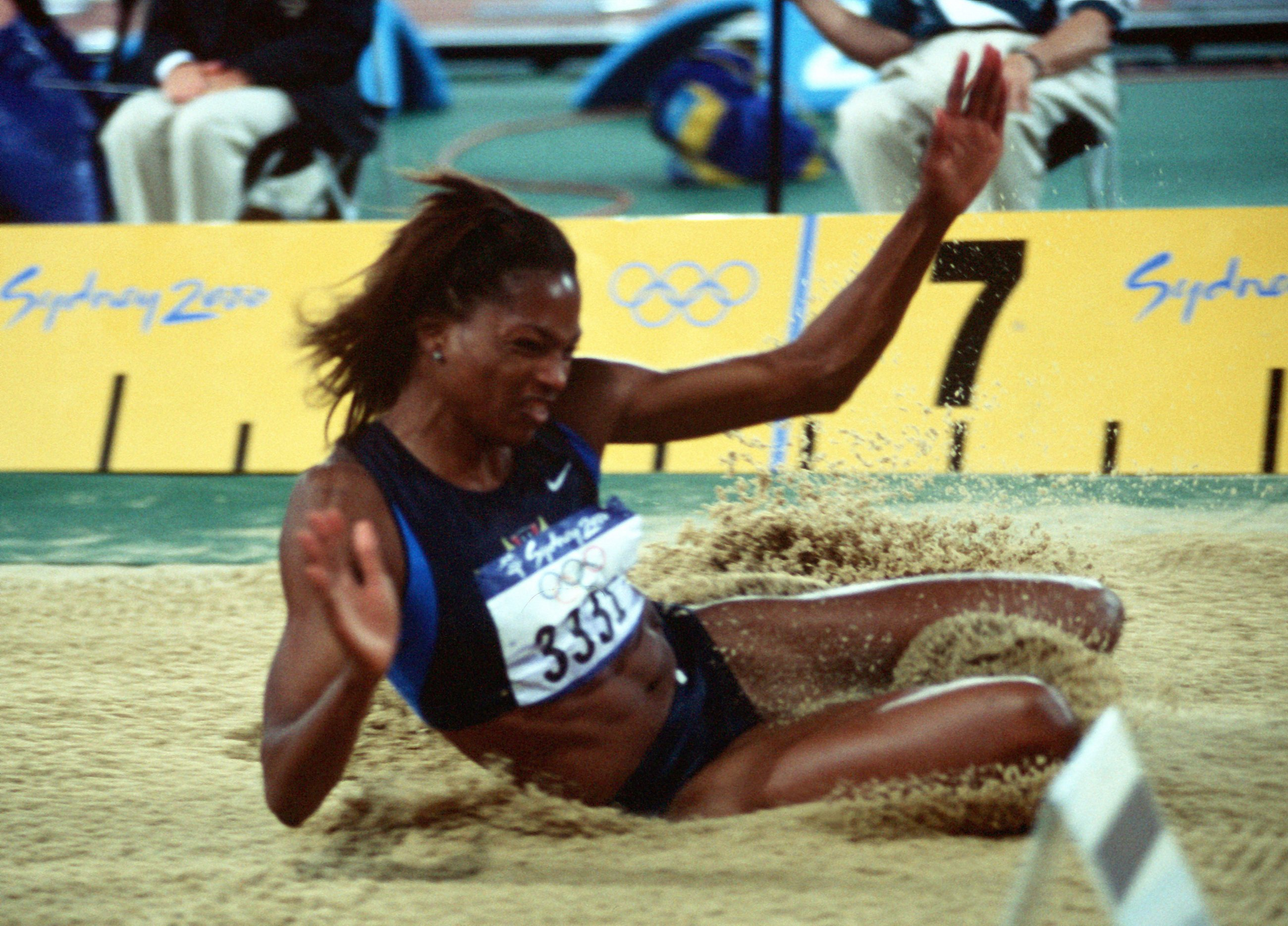 Dawn Burrell lands in the sandpit during the Women's Long Jump competition at the 2000 Olympic games in Sydney, Australia, on September 27th, 2000.